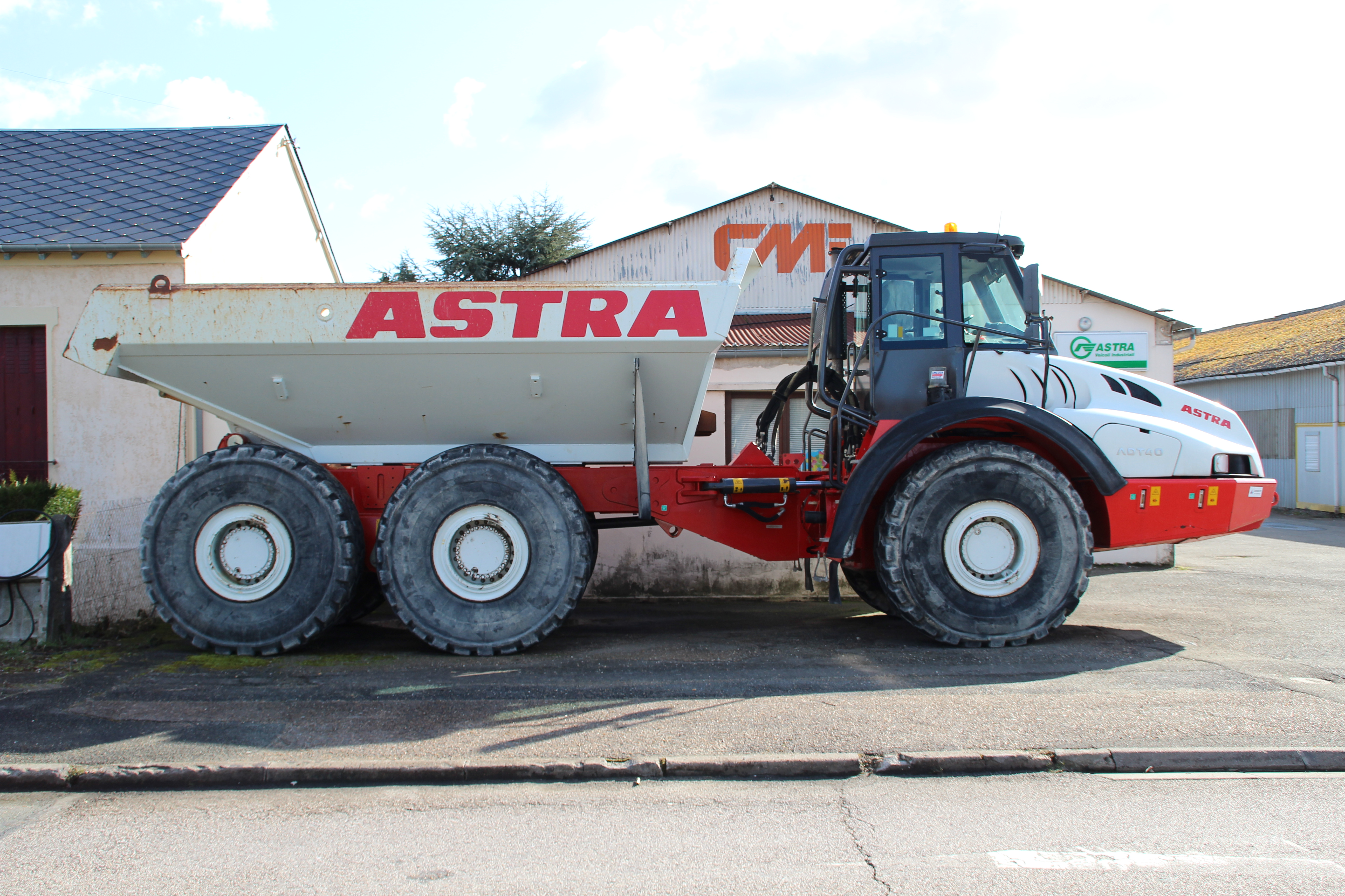 Articulated dumper Astra ADT 40 in Ablis, France.